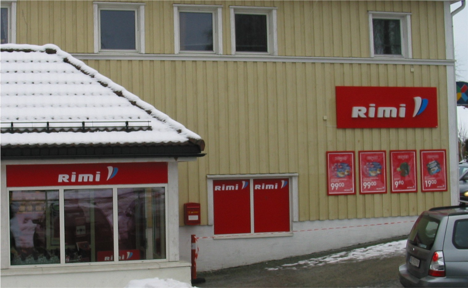 Exterior of a store in the Rimi chain, using the design introduced in late 2008, at Jar in Bærum, Norway.